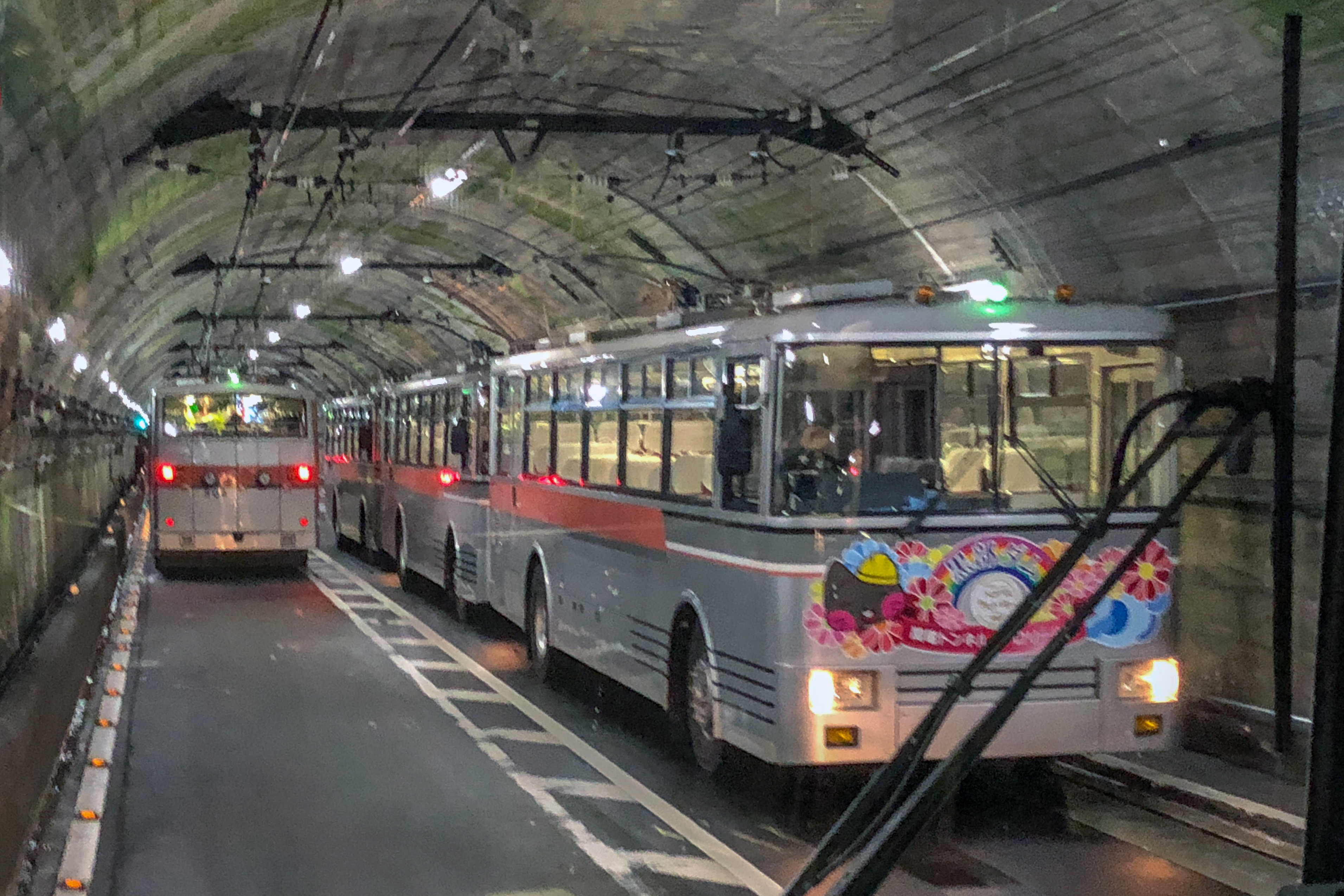 Trains of trolleybuses pass each other at a crossing loop in the Kanden Tunnel in Japan